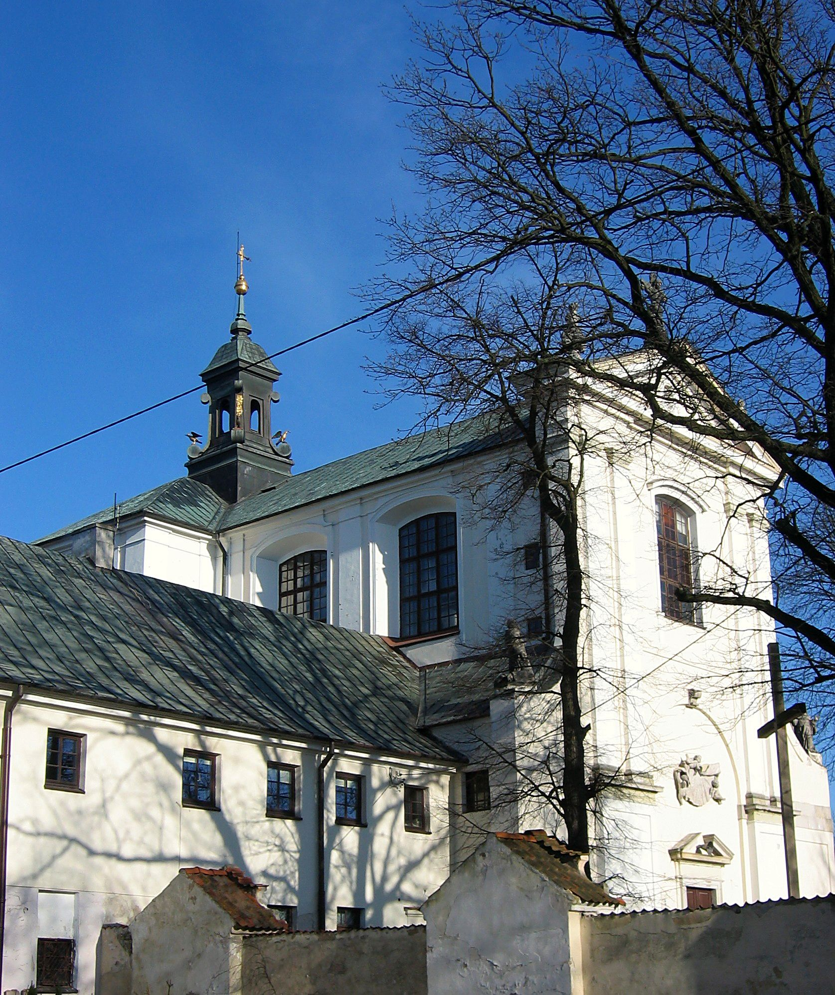 Franciscan Church in Węgrów